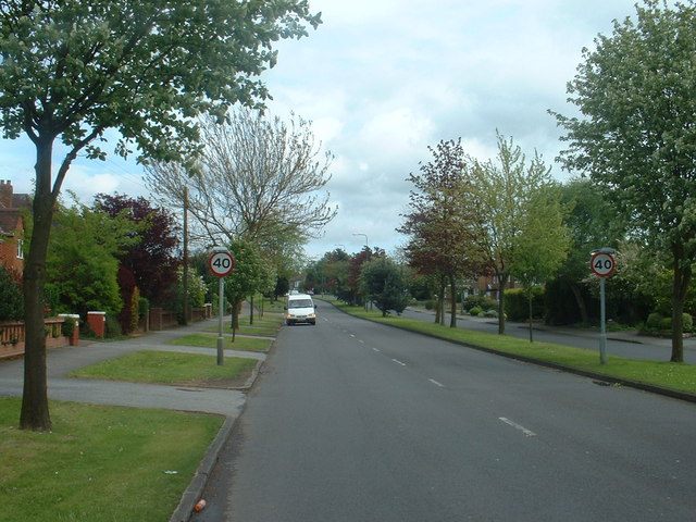 The A41 in Solihull – A nice leafy bypass to the town centre.